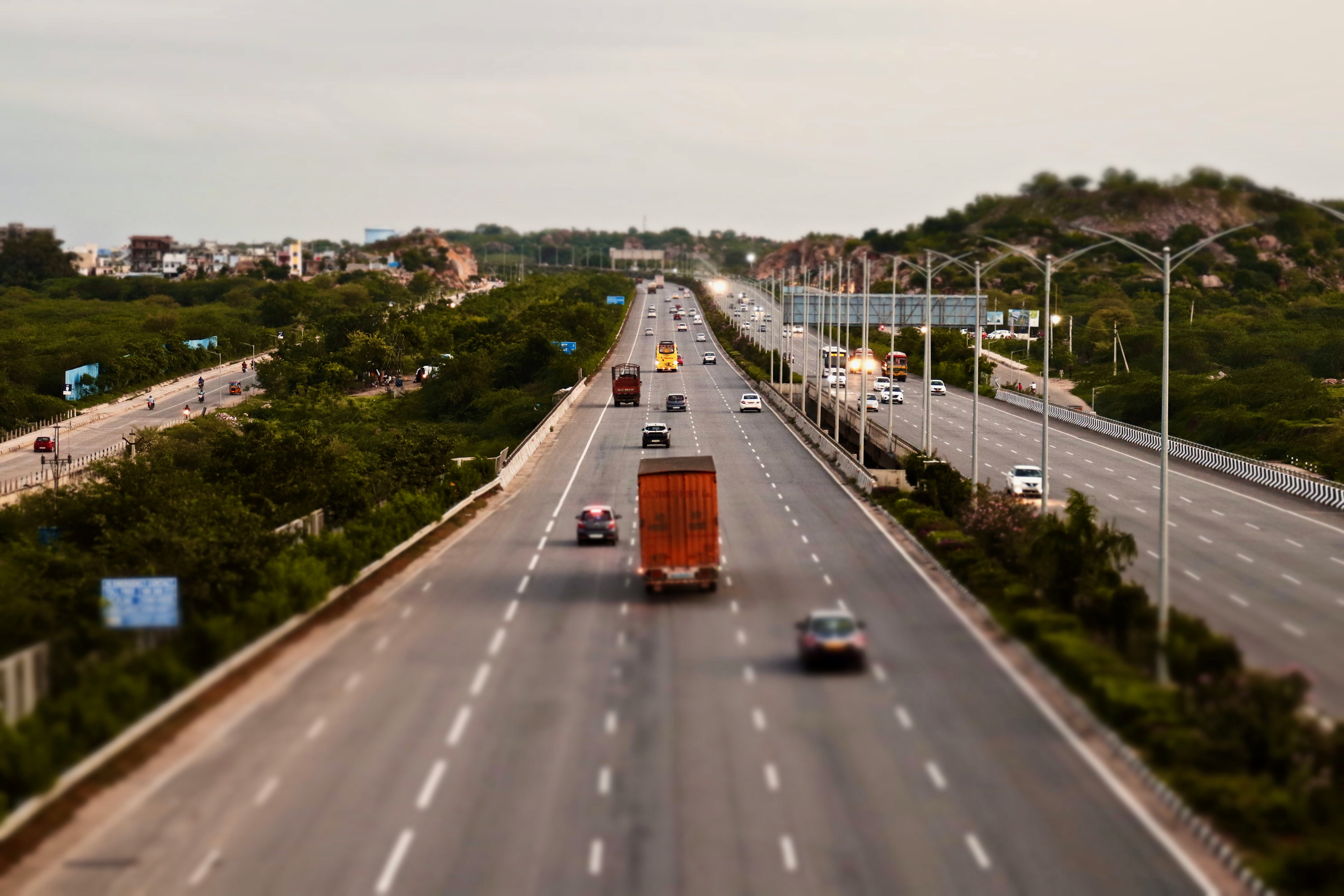 Outer Ring Road or Nehru Outer Ring Road is a 158 kilometre, 8-lane ring road expressway encircling the capital city of Hyderabad, Telangana, India. The concept of First outer ring road in india was idea of N. Chandrababu Naidu, chief minister in 2001 with 158 km long surrounding the hyderabad have been proposed to decongest the traffic problem of the metropolitan region and to provide orbital linkage to arterial roads, access to the international airport and to other important urban node and the first phase completed in 2005.